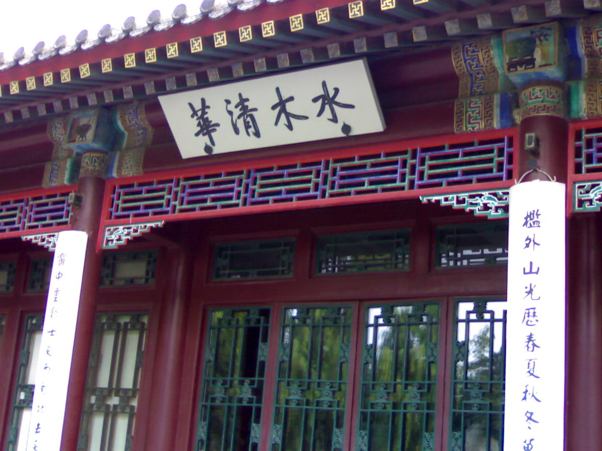 Shui Mu Qing Hua in Tsinghua University, Beijing, China.